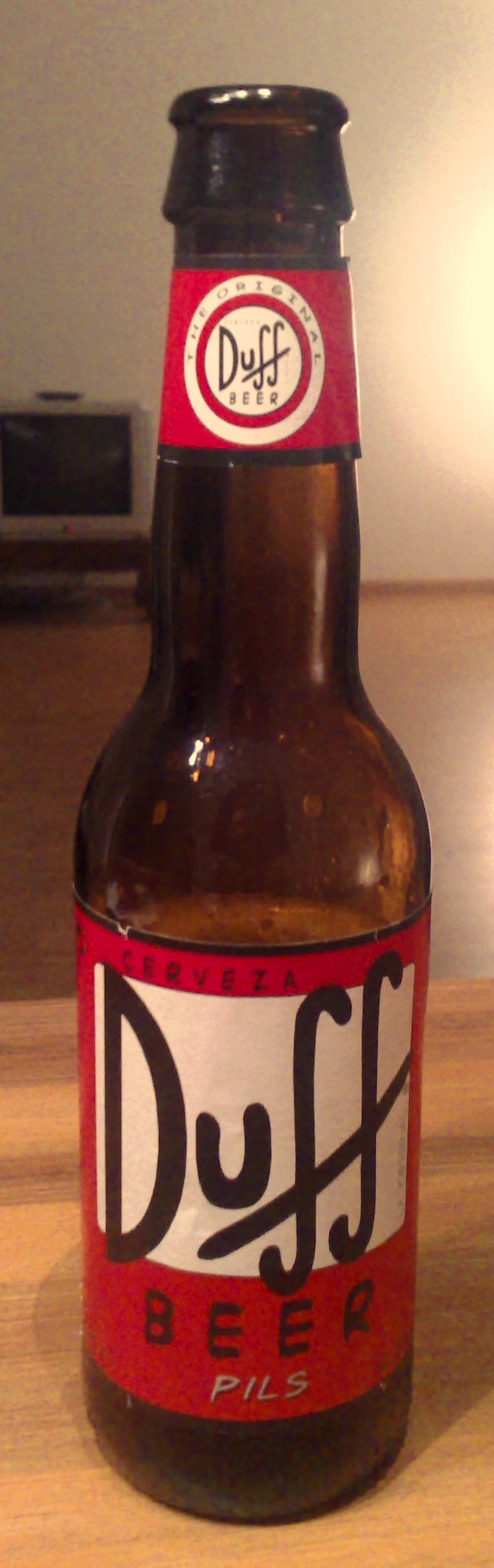 Mexican Duff beer, purchased in Switzerland